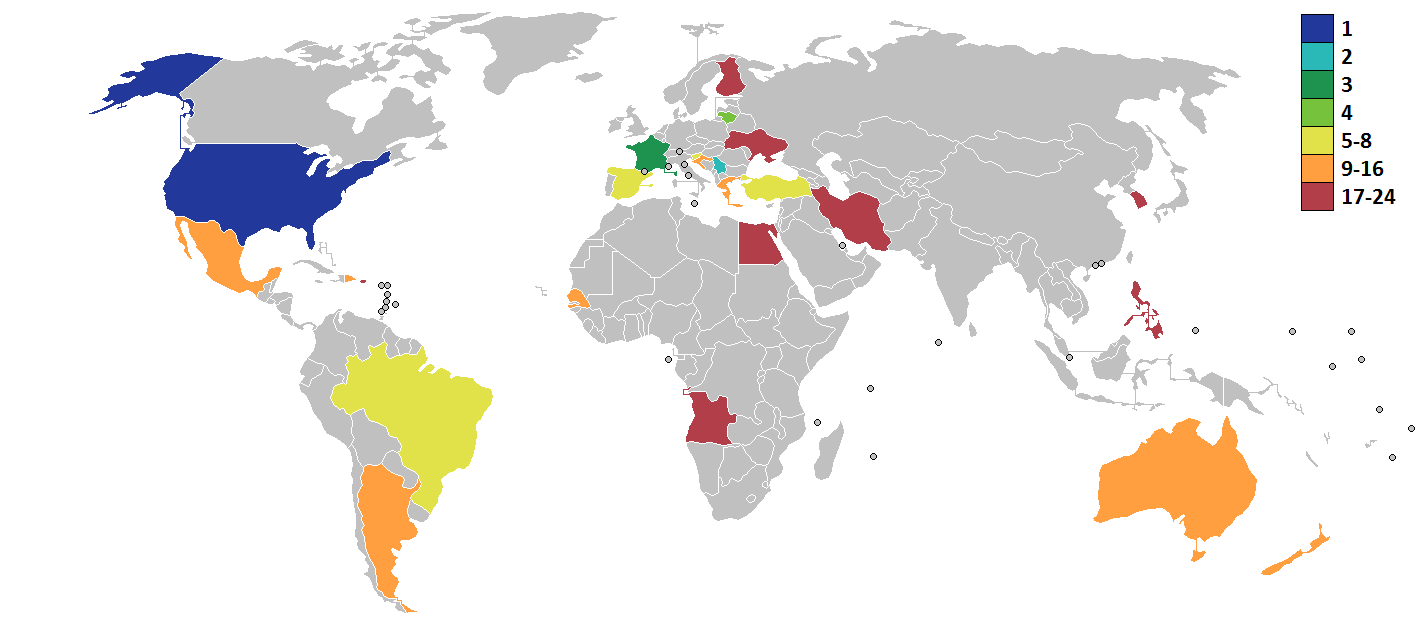 Final positions of teams in the 2014 FIBA Basketball World Cup.